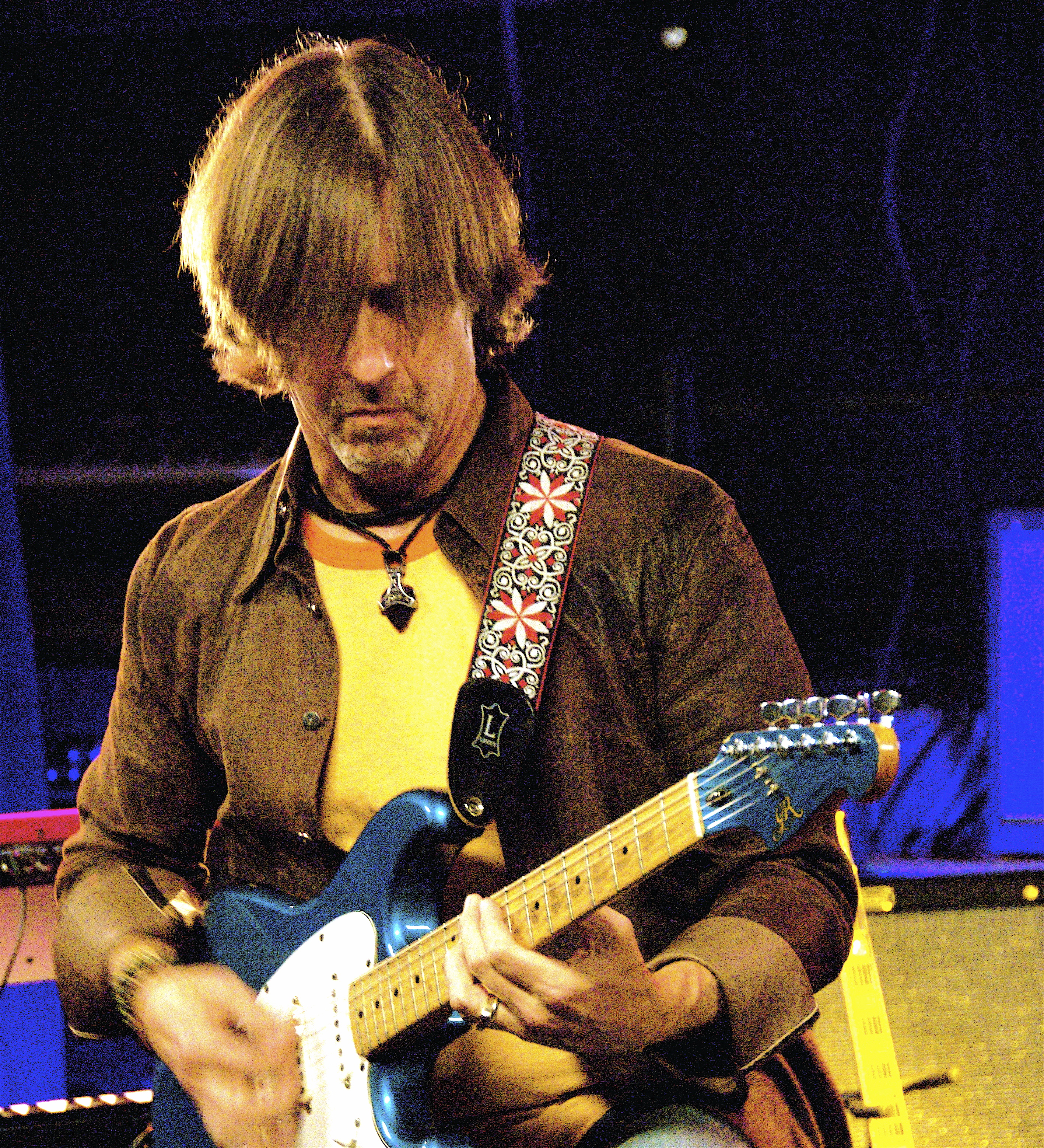 Still shot